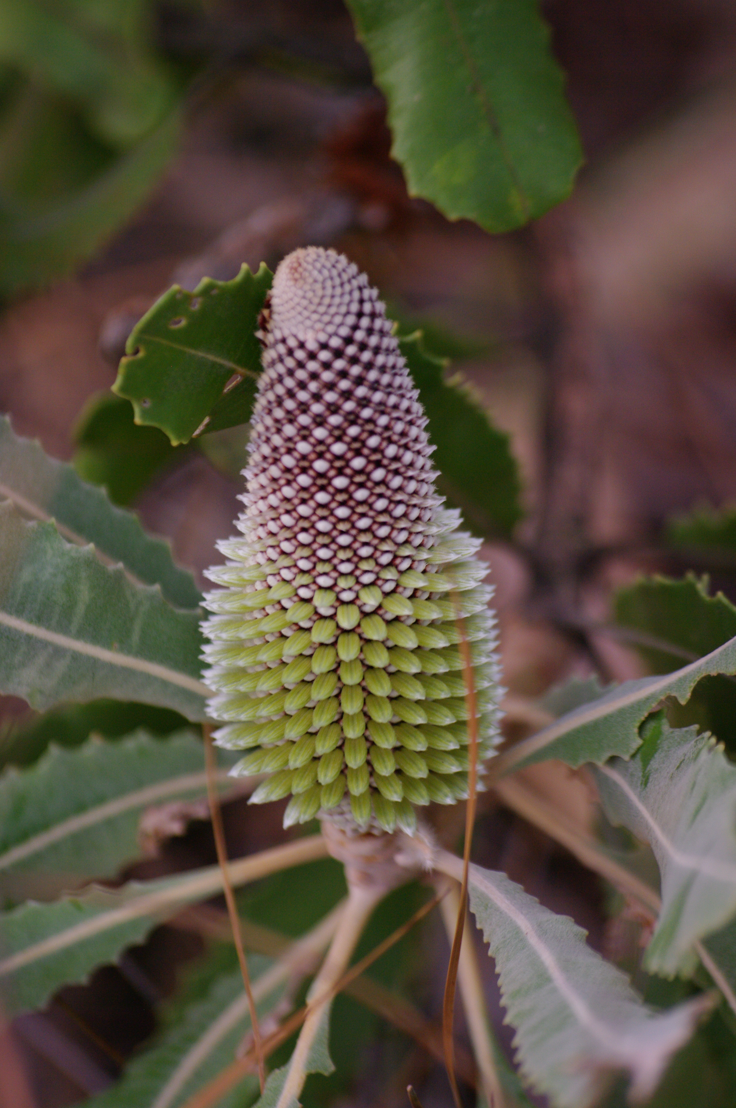 Banksia menziesii early inflorscence